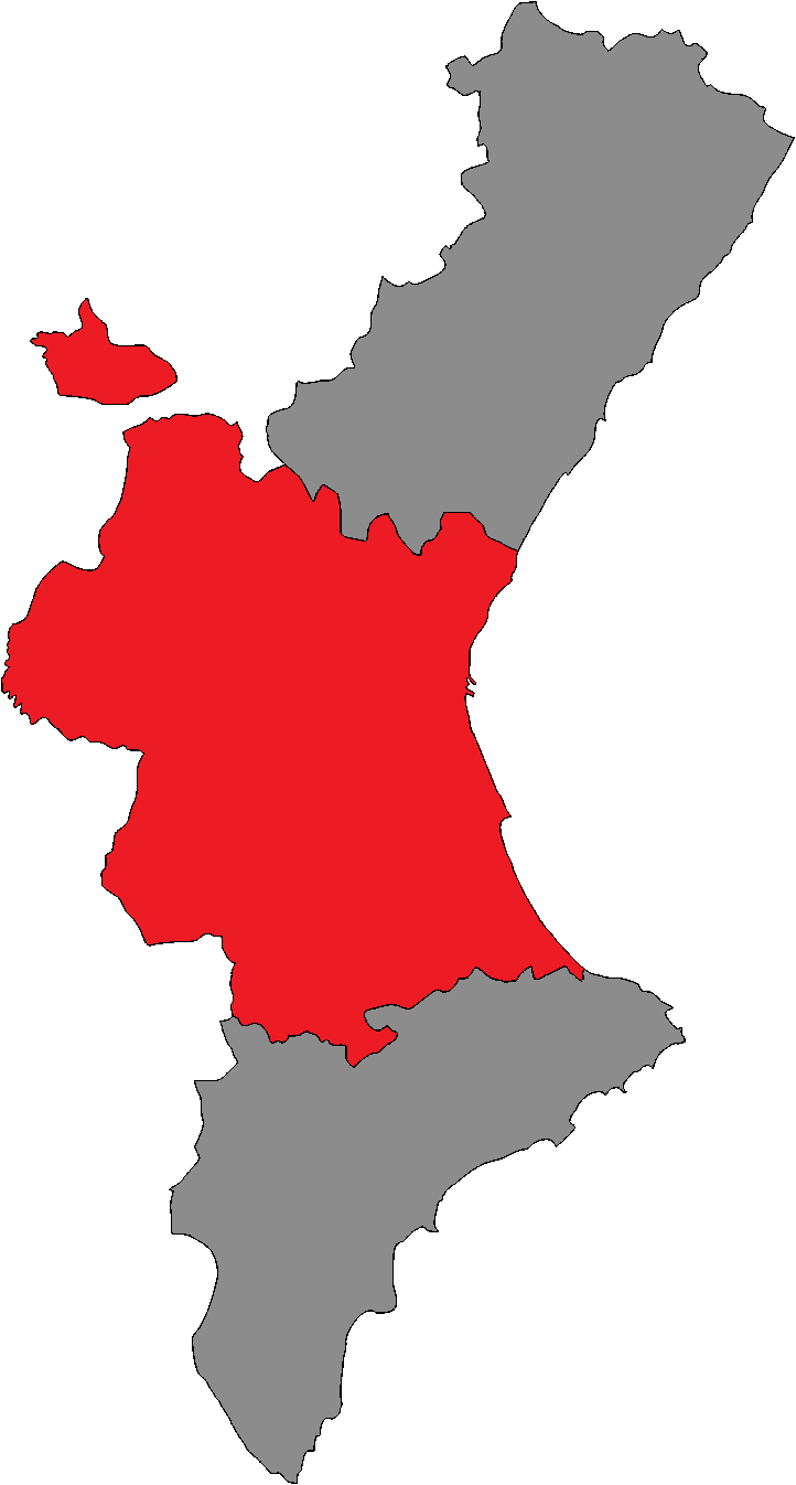 Valencian Courts district of Valencia.